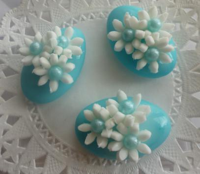 Sugar Plum Hand decorated, made ​​of sugar paste.